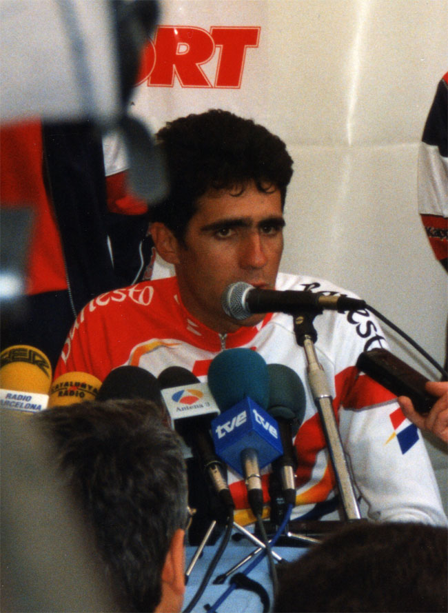 Cyclist Miguel Indurain in a press conference after the XXI Criterium Ciutat de L'Hospitalet.